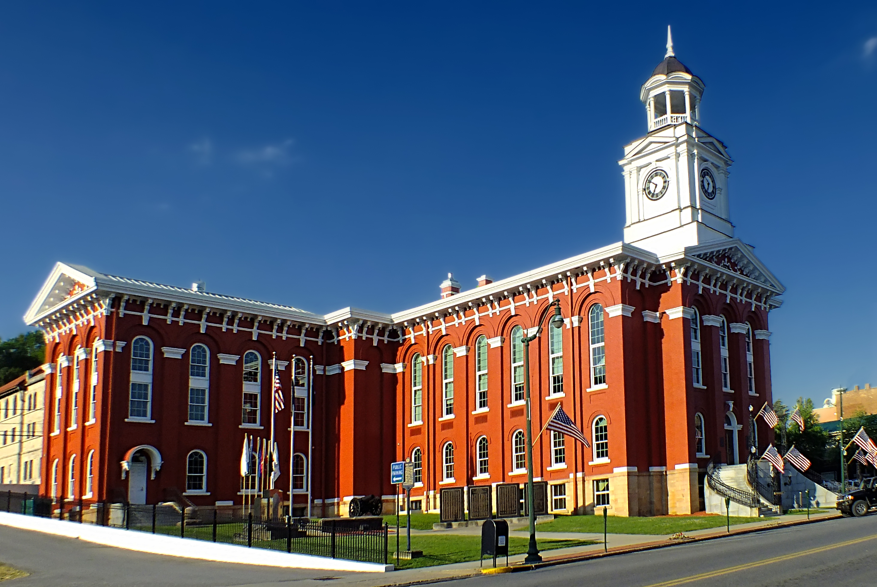 Within the borough of Brookville.